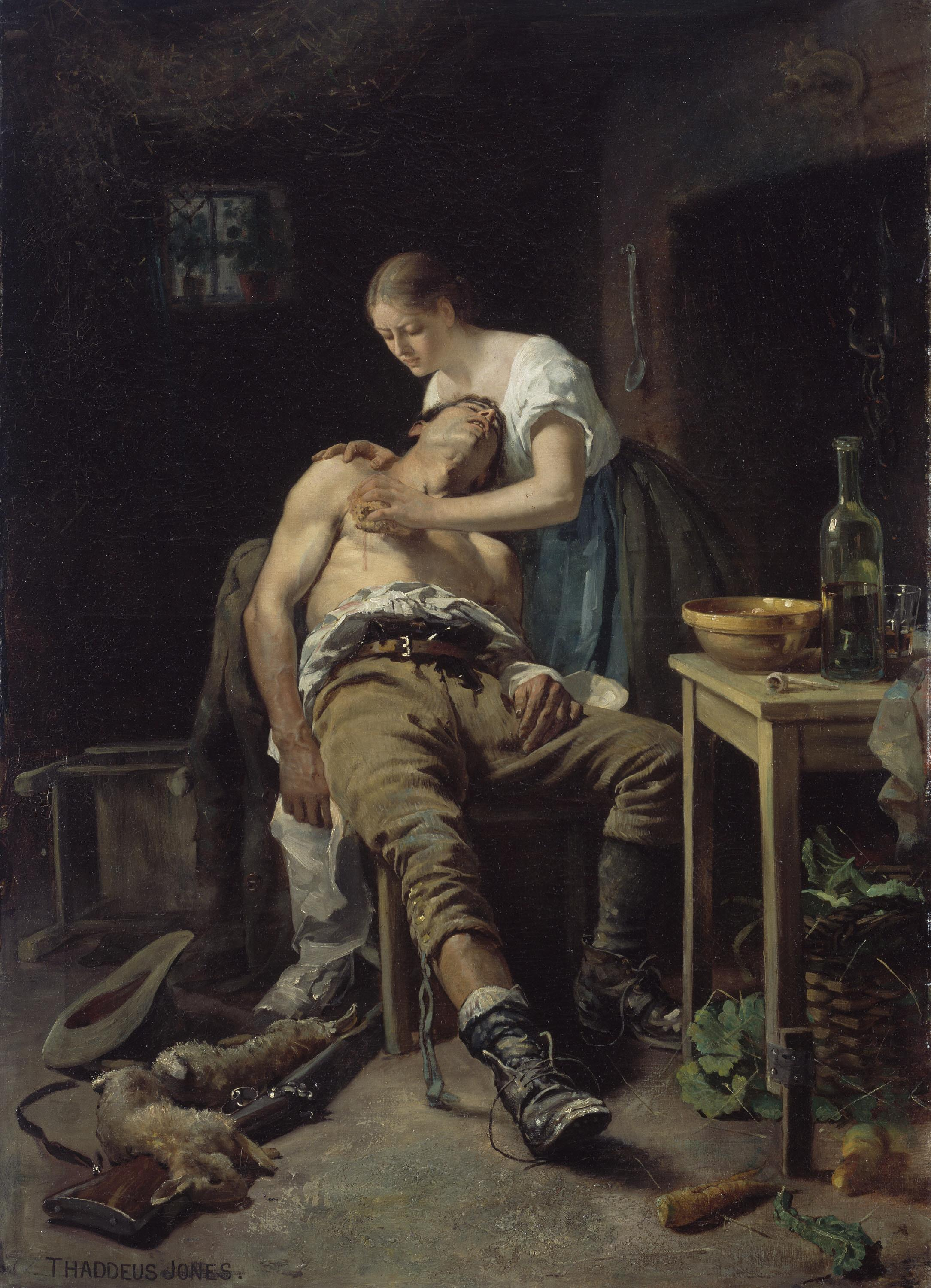 La (sic) retour du bracconier (The Wounded Poacher) Henry Jones Thaddeus Oil on canvas National Gallery of Ireland, Dublin